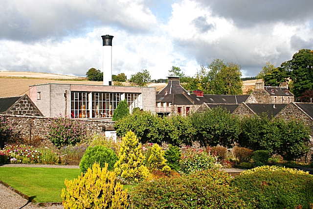 Glendronach Distillery - the Garden The distillery house has a well-maintained garden, looked after by one man for the last 32 years. Underneath it is a tunnel which is thought to be the lade of a former meal mill, one of seven mills formerly operating in the parish of Forgue. The tunnel had long been forgotten until the gardener rediscovered it while preparing ground for planting.